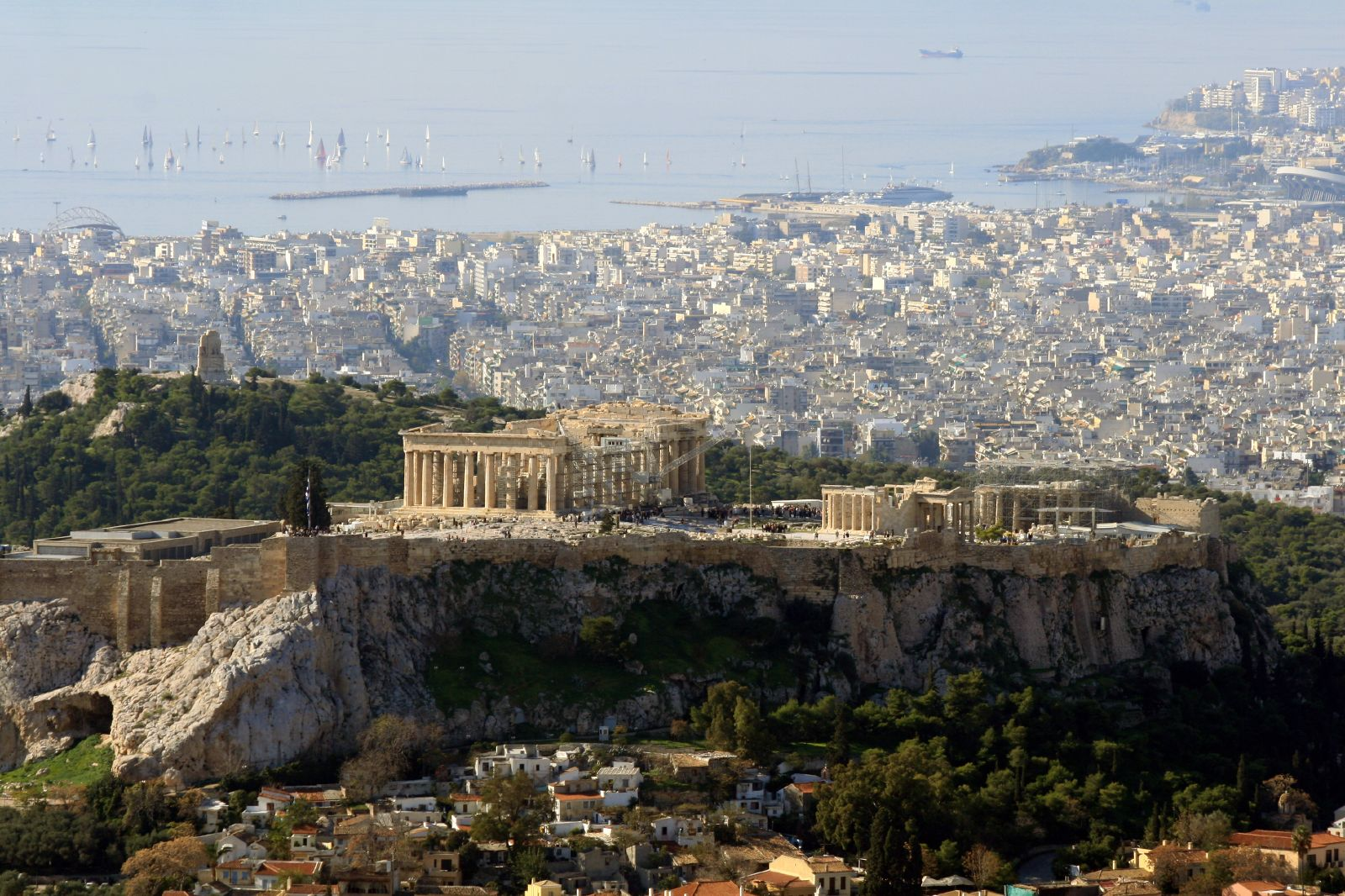 View of the Acropolis from Lykavittos Hill.